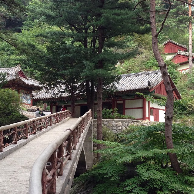 Habiro-am Temple North Korea 하비로암 For more information on this temple, visit